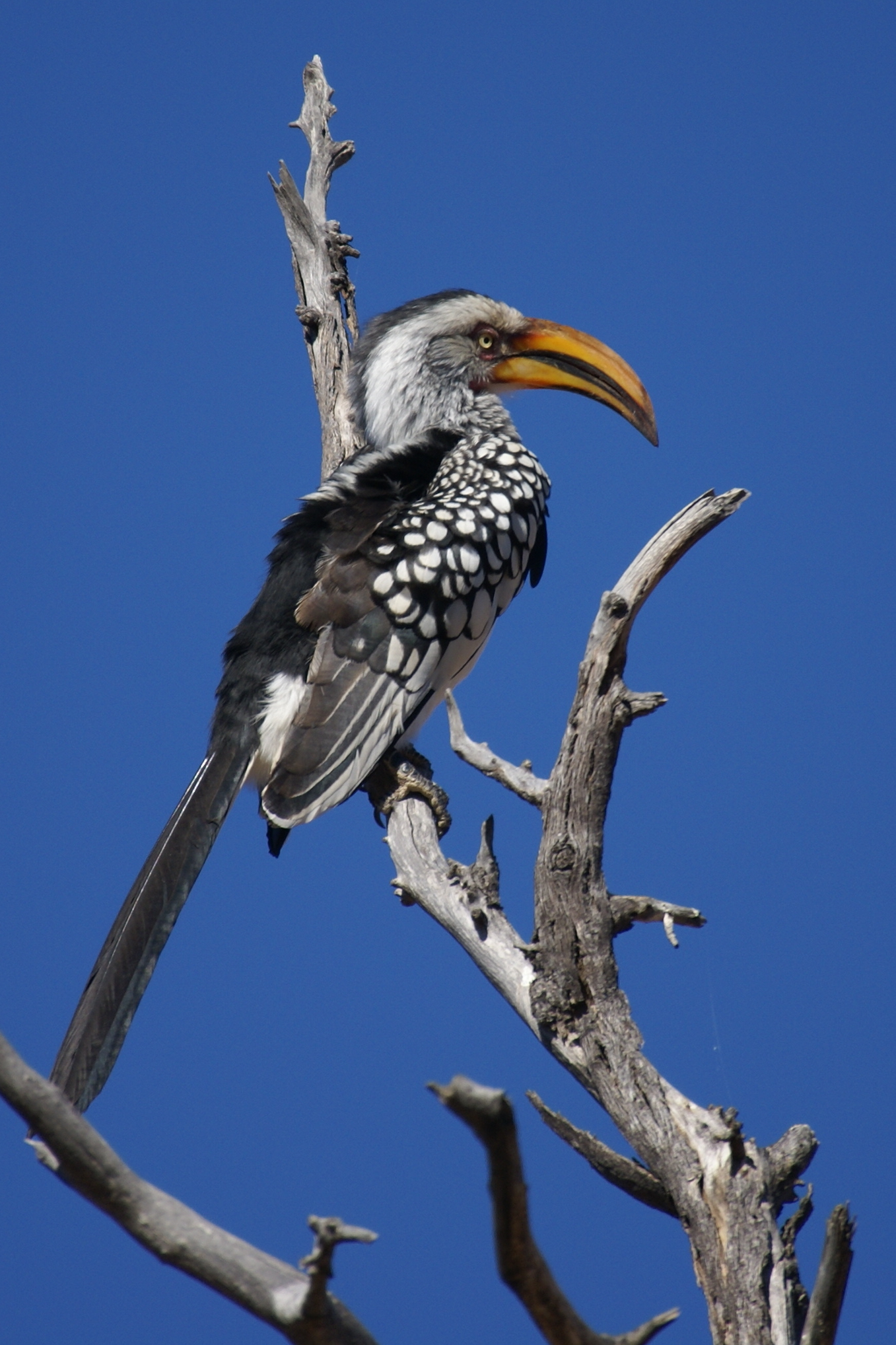 Tockus leucomelas in Namibia